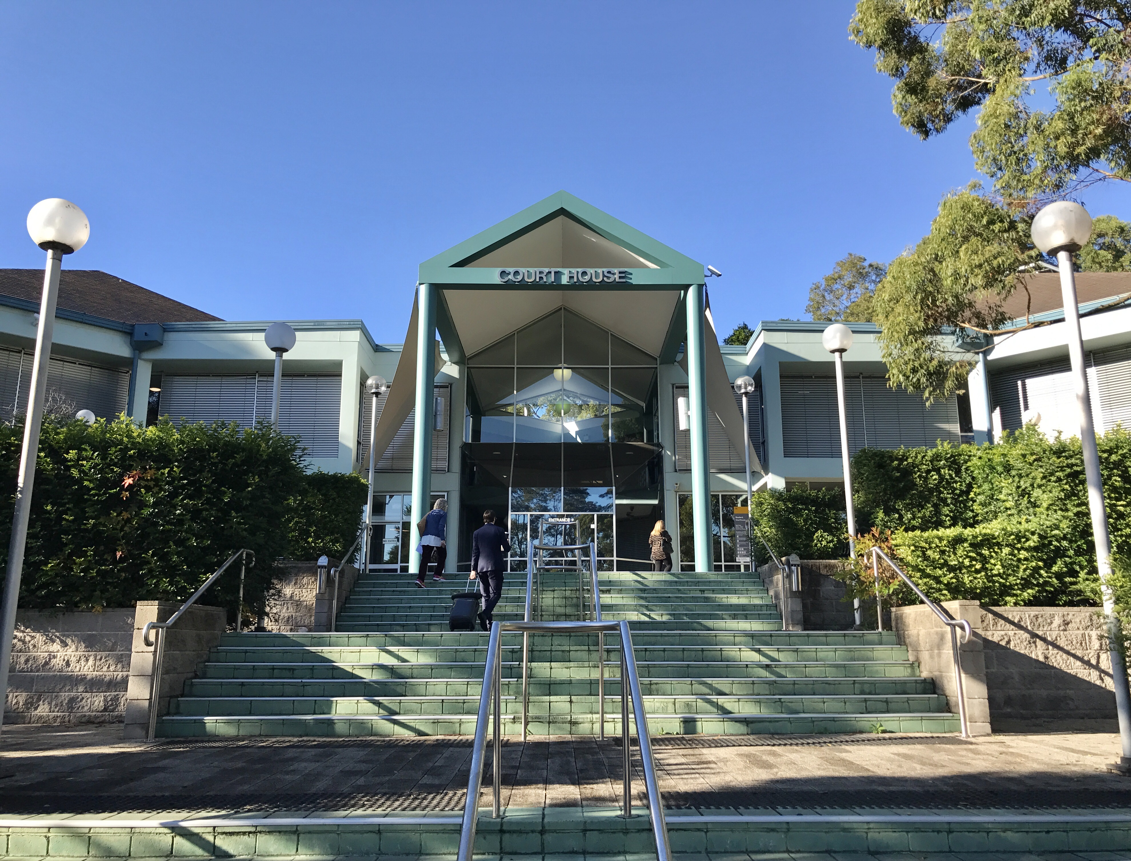 Gosford Court House, New South Wales